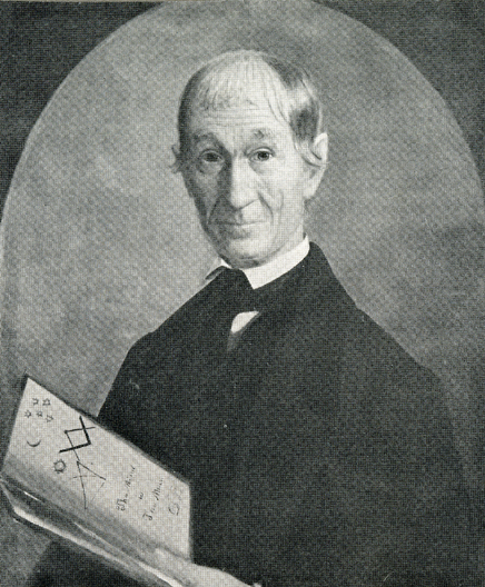 Portrait of publisher Dudley Leavitt (1772–1851) of Meredith, New Hampshire. Courtesy of the New Hampshire Historical Society, Concord, New Hampshire.